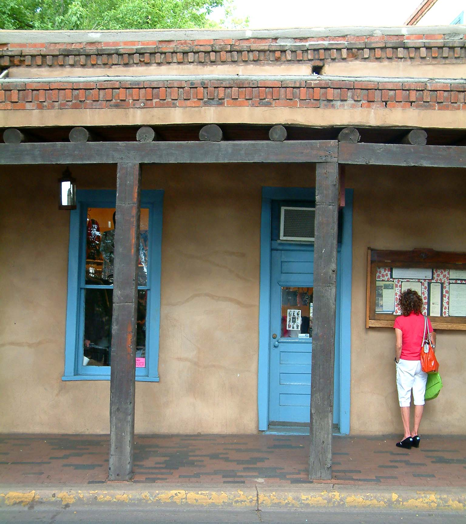 a detail of a Territorial styled building in Santa Fe, New Mexico USA